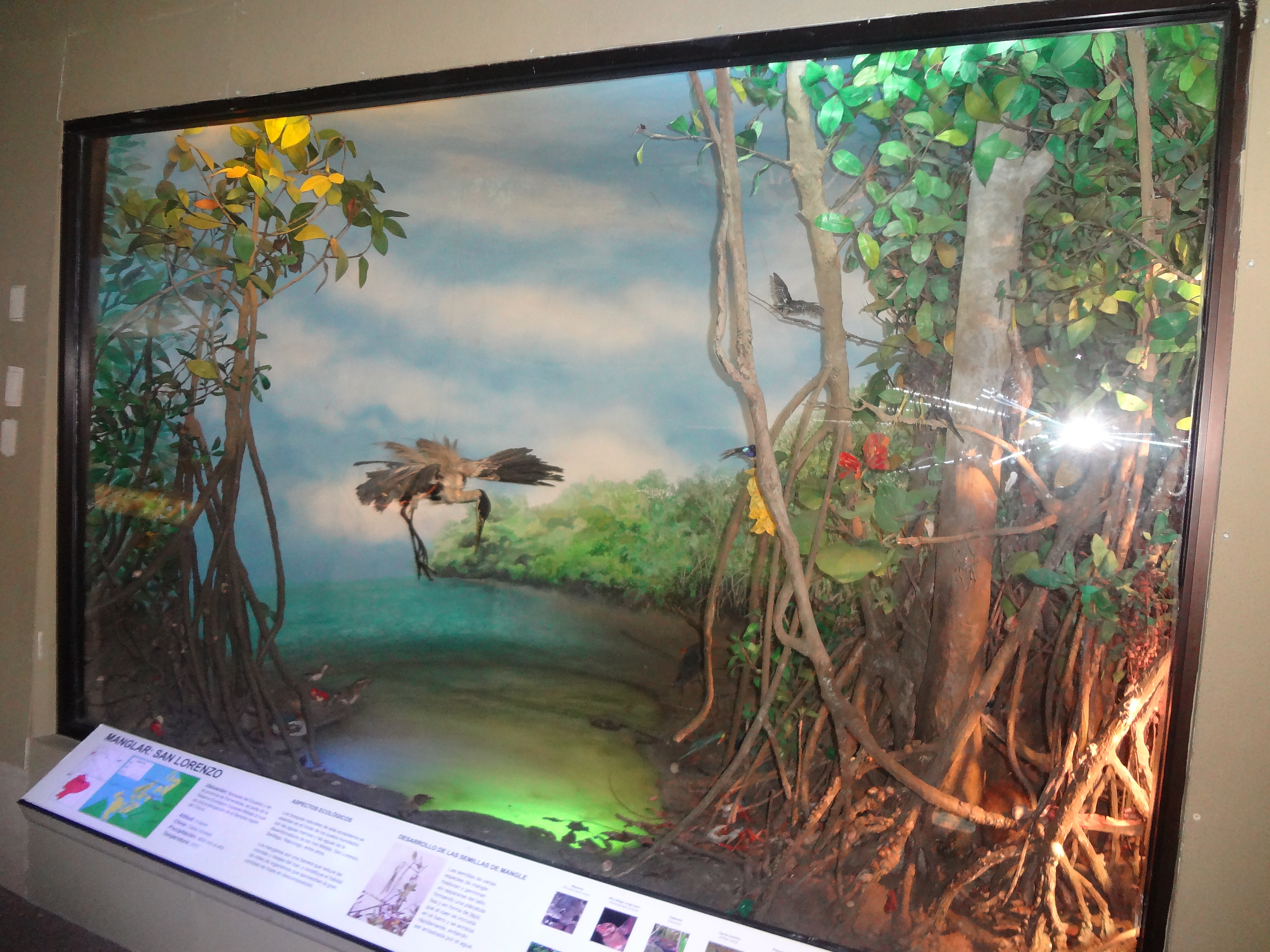 Inside the Gustavo Orcés Natural History Museum is on the campus of The National Polytechnic School (Spanish: Escuela Politécnica Nacional), also known as EPN, is a public university located in Quito, Ecuador.